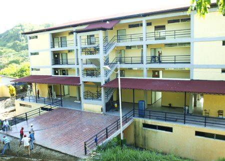 Current headquarters of the Faculty of Medicine 'Dr. José Francisco Torrealba' in San Juan de los Morros, owned by UNERG. Building where the country’s doctors are prepared.